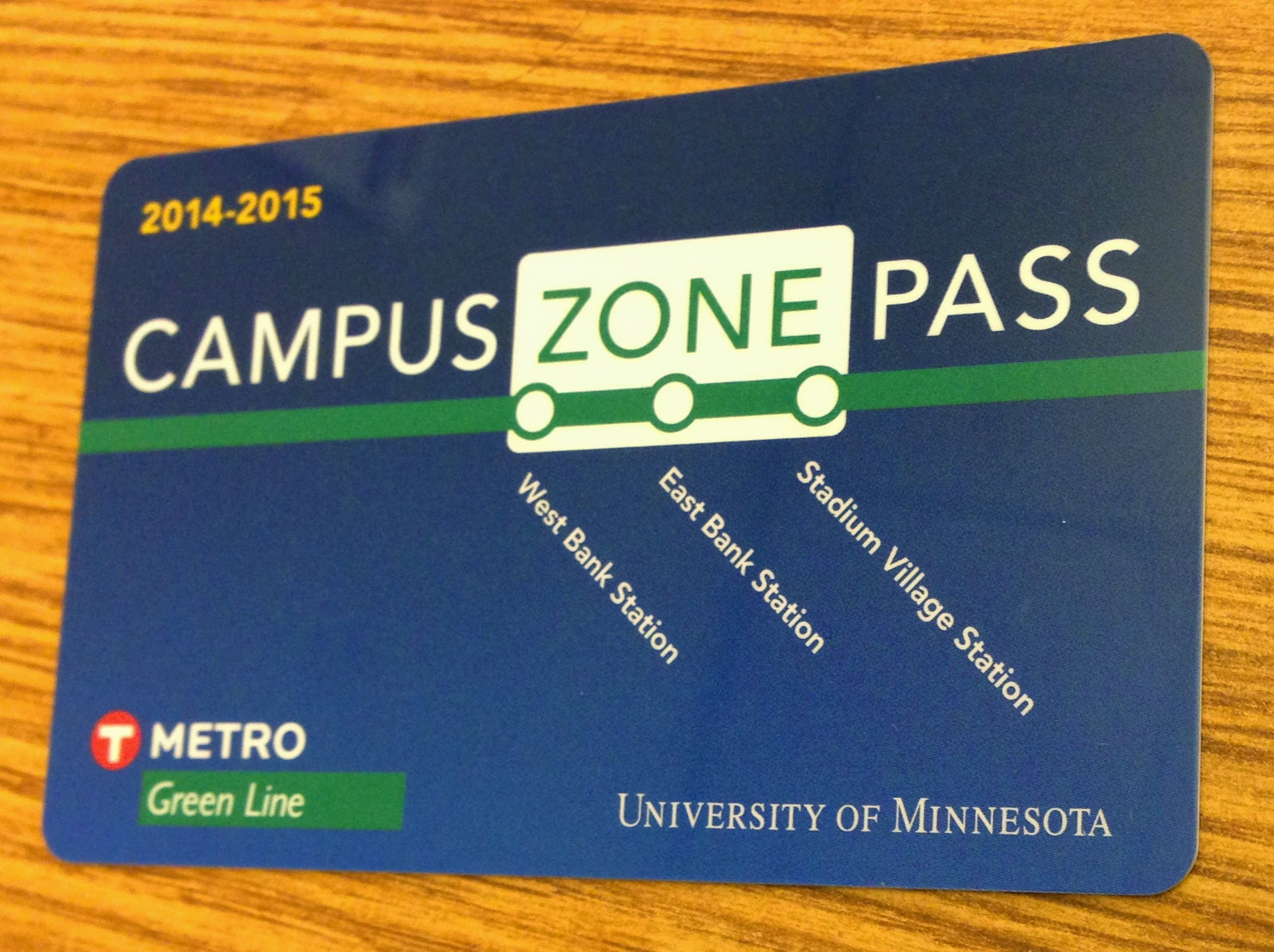 Green Line through the University of Minnesota Minneapolis campus, 2014-2015